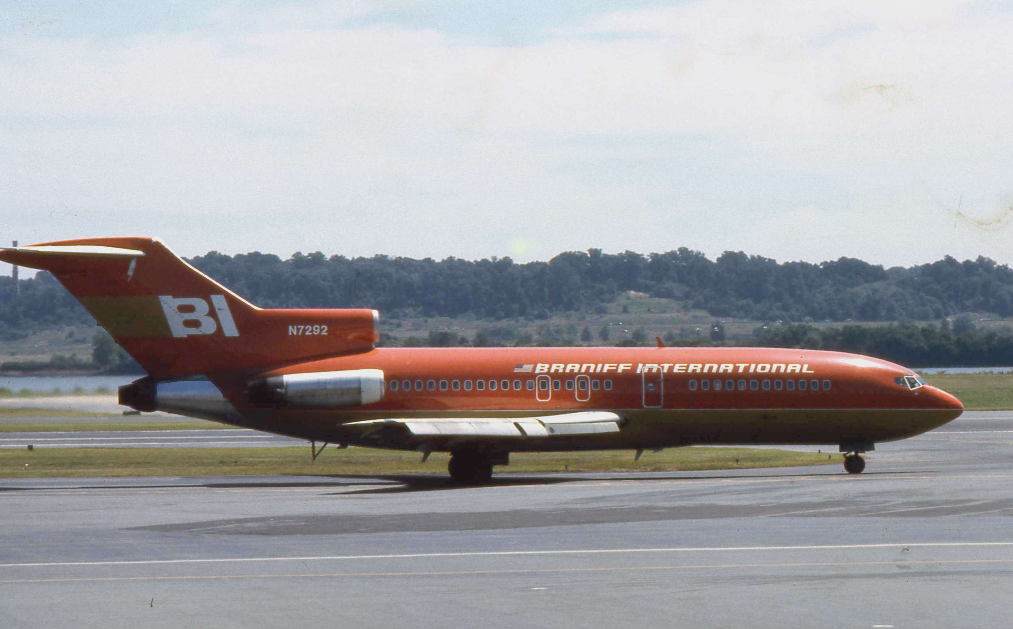 First flight on August 23, 1967, delivered to Braniff International on August 31, 1967 in yellow livery while here is taken in orange livery. Delivered to Transbrasil in December 1979 and registered PT-TYL. Delivered to Aerochasqui as N129CA, delivered to Americana de Aviación on January 16, 1991 as N65894. Broken up at Jorge Chavez International.